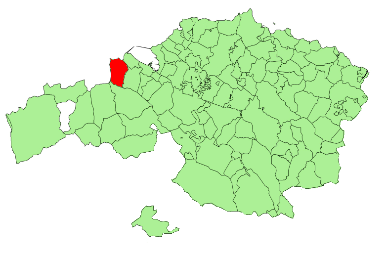 Muskiz municipality in the province of Biscay